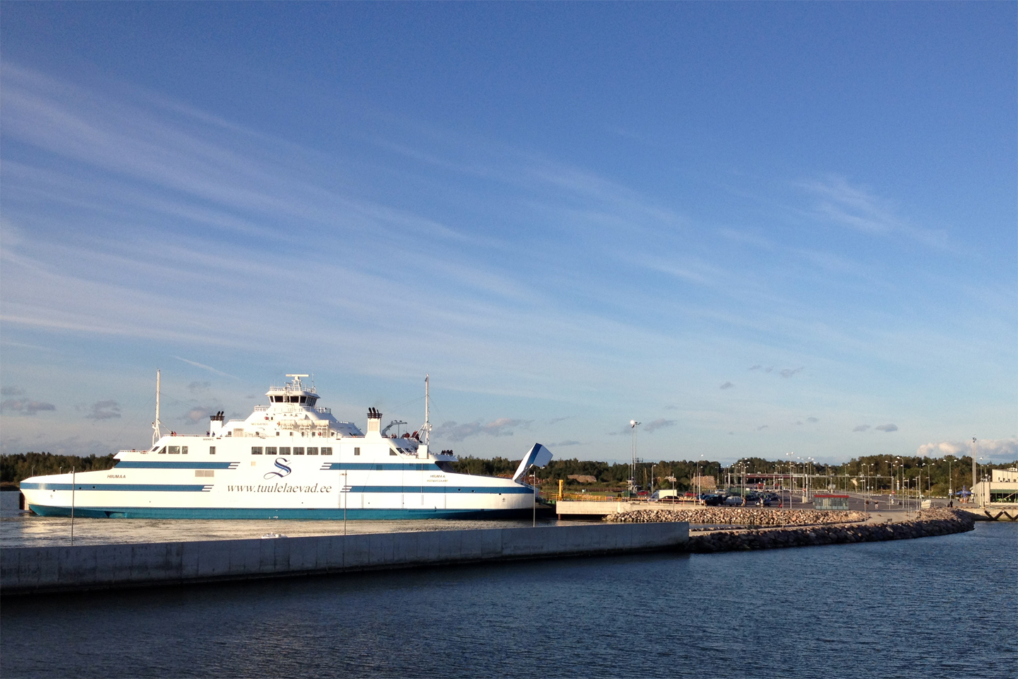 The ferry to Hiiumaa taking cars and passengers on board. In the Rohuküla harbour.